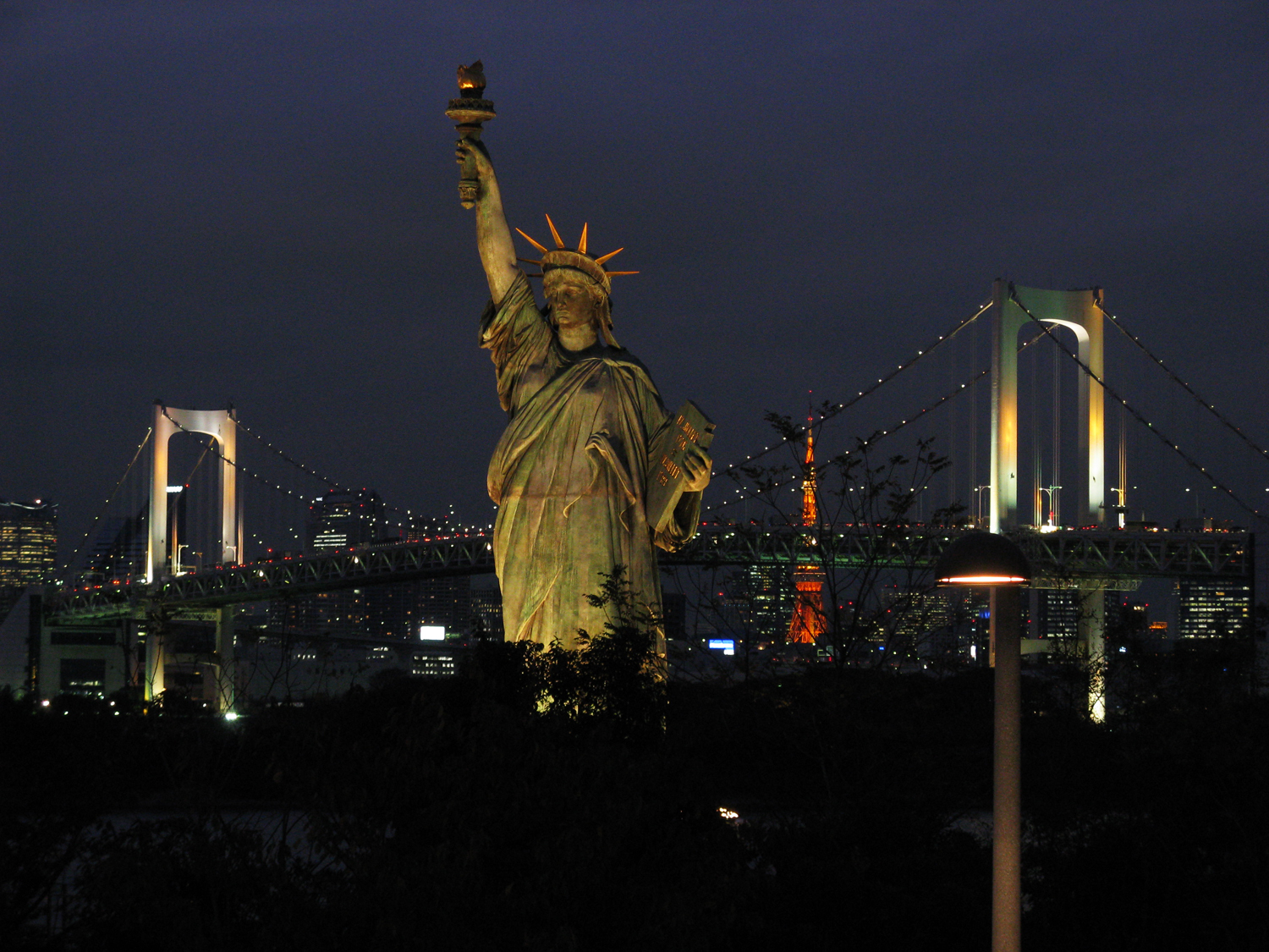 Ms. Liberty in Tokyo